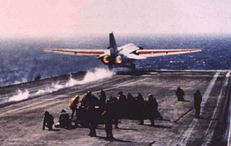 A General Dynamics F-111B (BuNo 151974) being launched from the aircraft carrier USS Coral Sea (CVA-43) in July 1968. It was the only F-111B to perform carrier operations after completing arrestor proving tests at the Naval Air Test Center Patuxent River, Maryland (USA), in February 1968. It crash landed at NAS Point Mugu, California (USA), on 11 October 1968 and was subsequently scrapped.